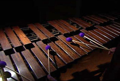 Person playing a marimba.